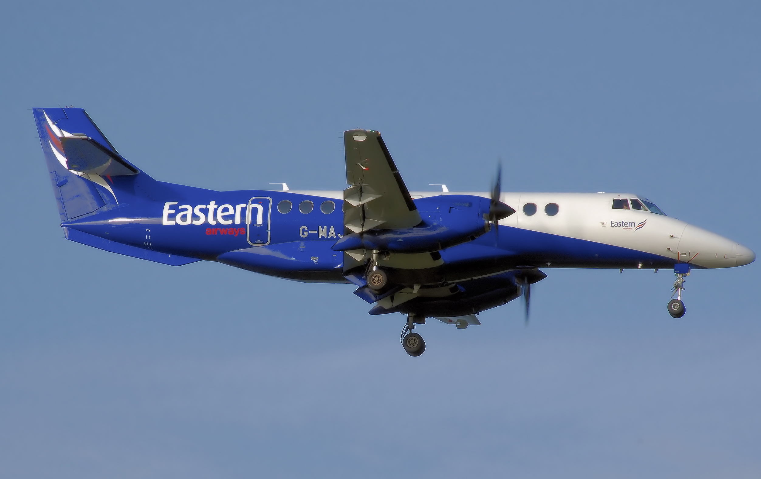 British Aerospace Jetstream 41 (G-MAJX) lands at Birmingham International Airport, England.